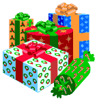 Pile of gorgeous gifts